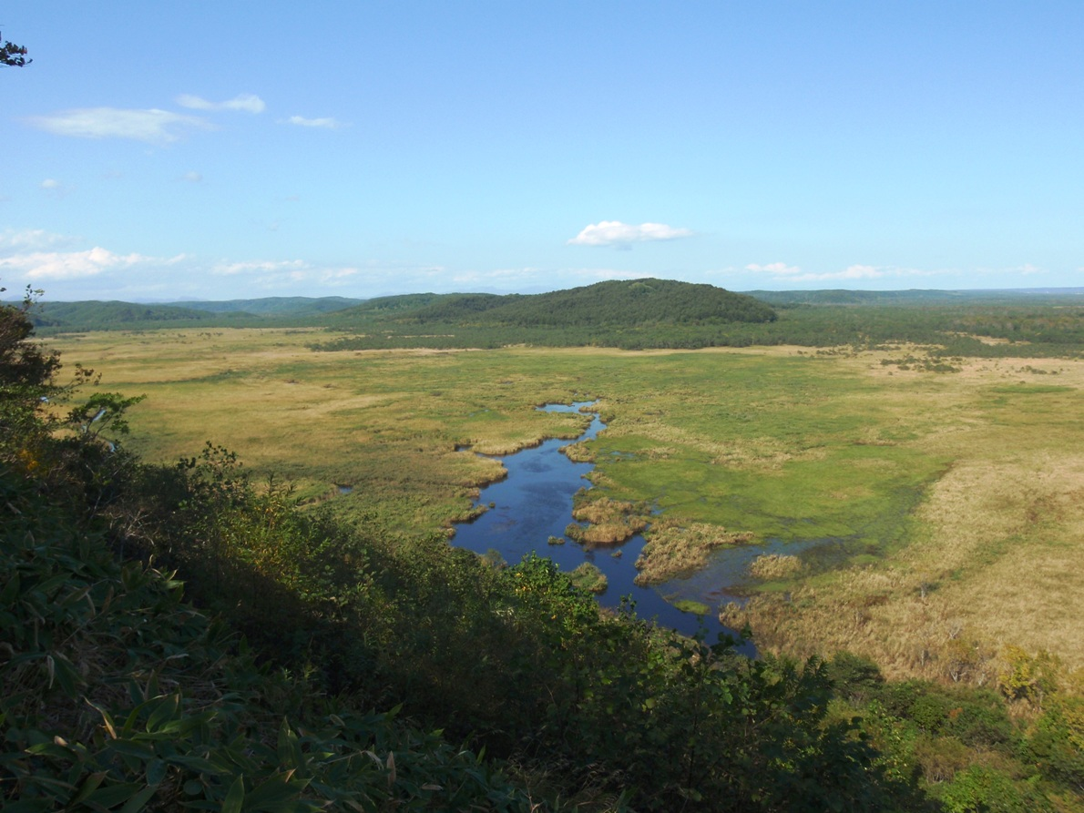 Kottaro wetland in Shibecha. Hokkaido.